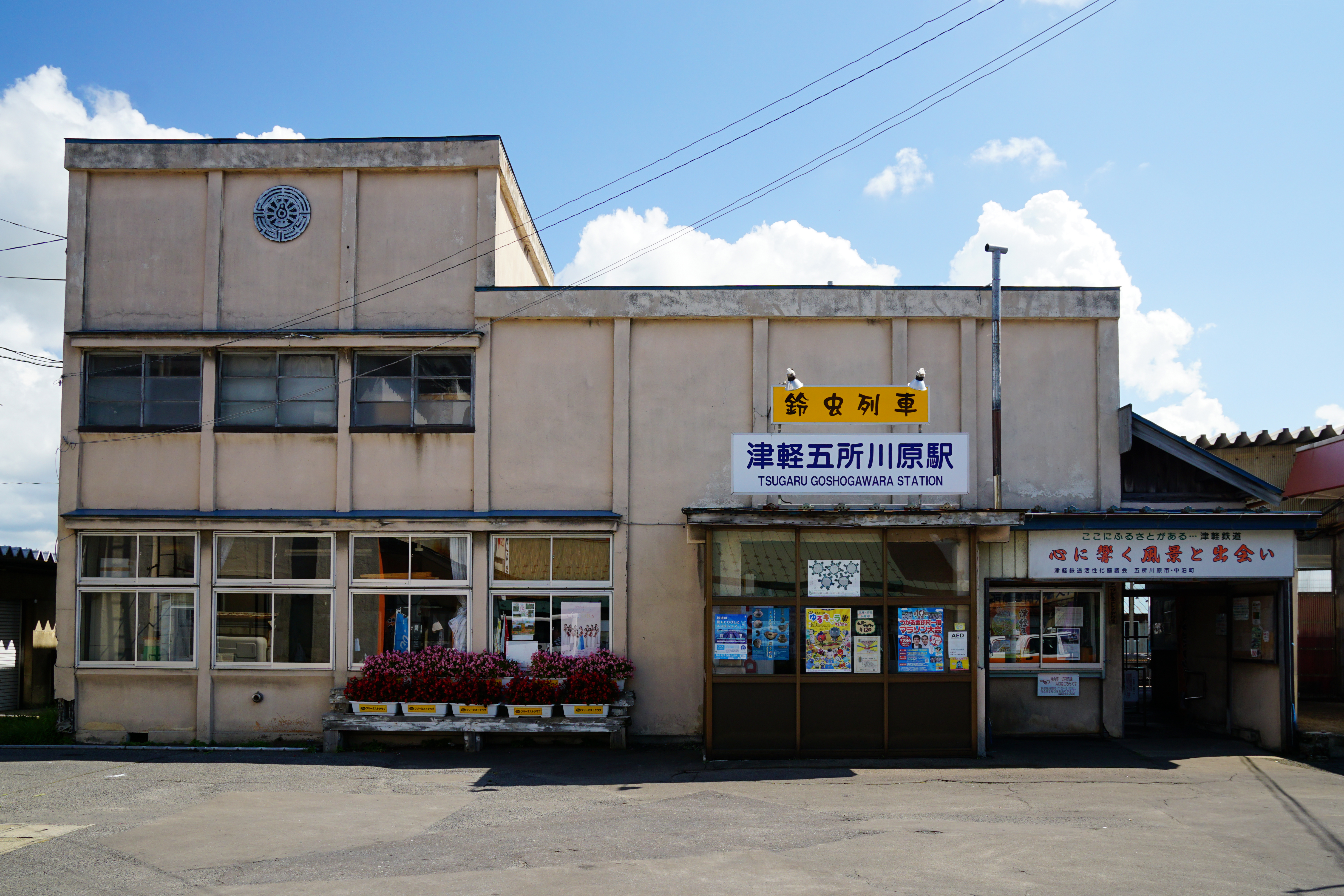 At Tsugaru Goshogawara Station in Goshogawara, Aomori prefecture, Japan.